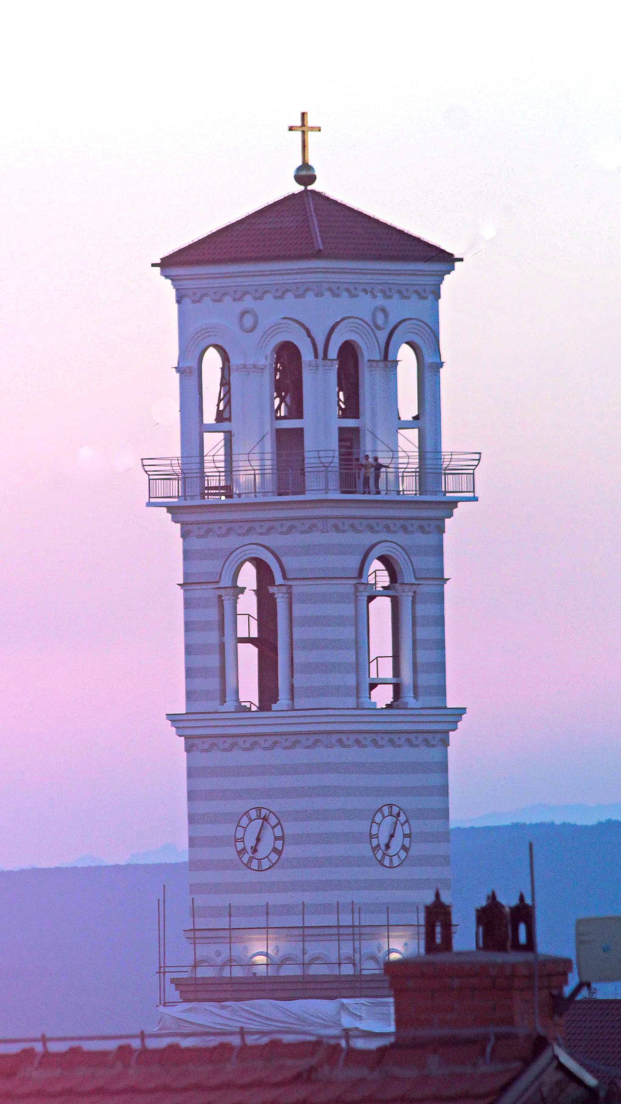 Prishtina's Kathedral - Prishtinë